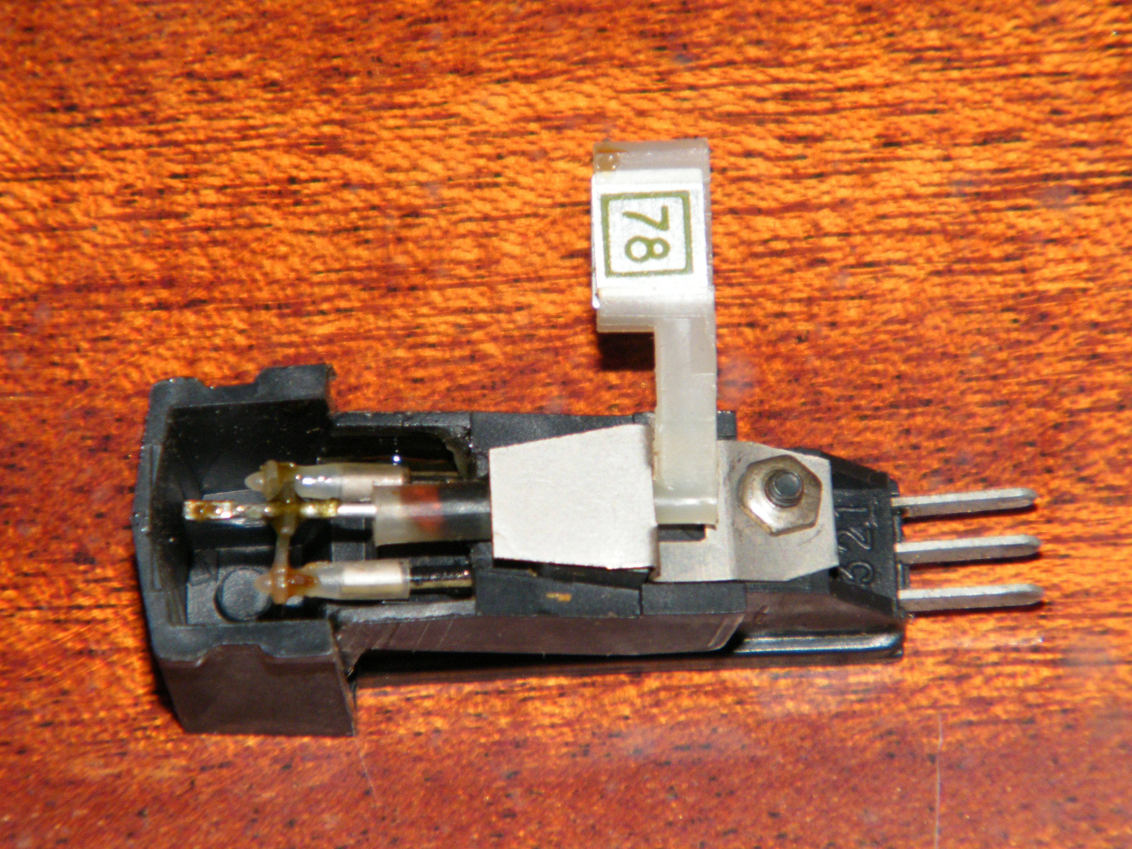 Стереофоническая пьезоэлектрическая головка